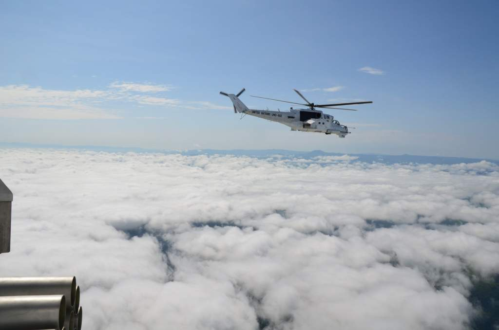 MONUSCO flight reconnaissance